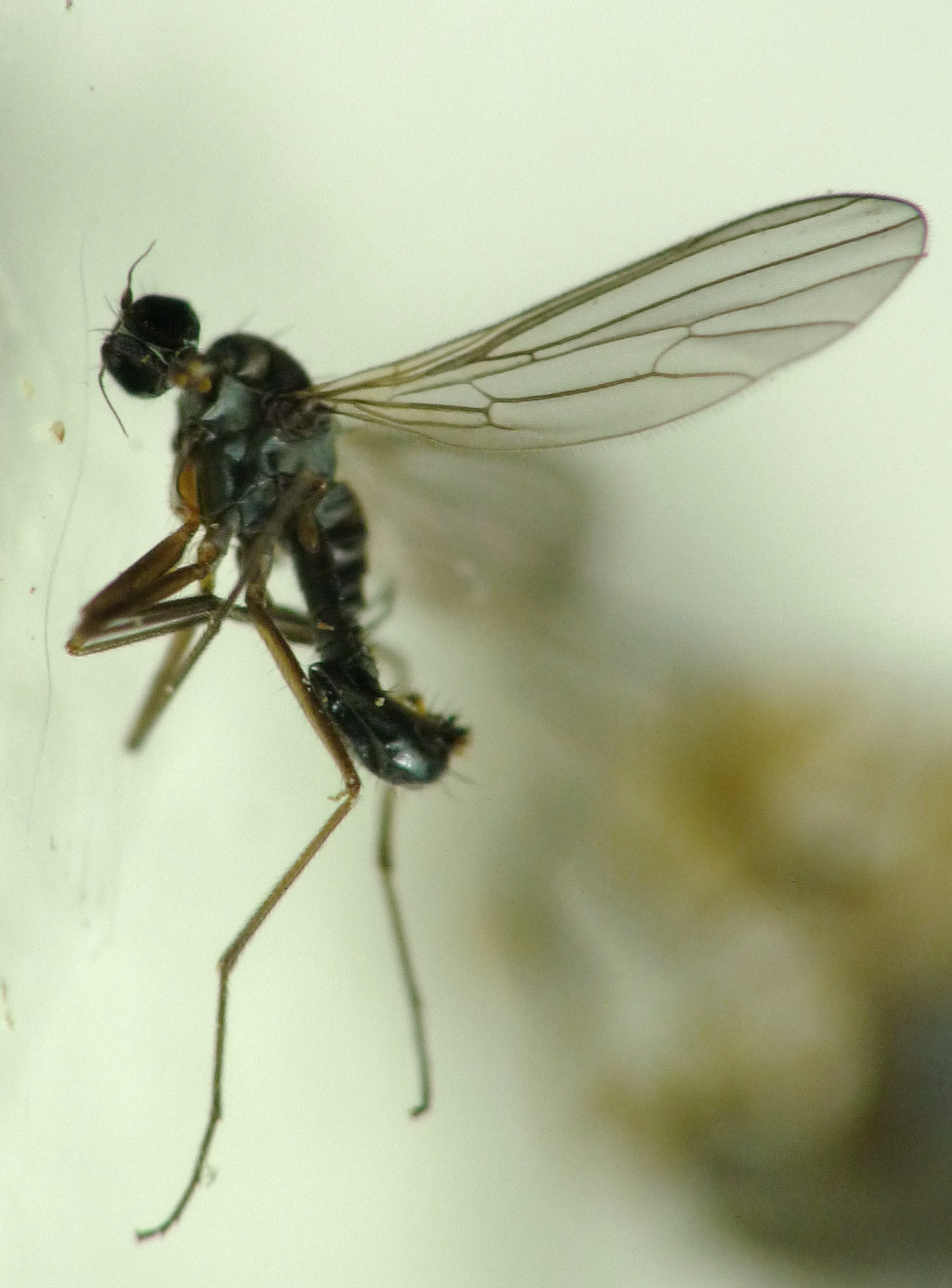 Heleodromia japonica Saigusa 1963